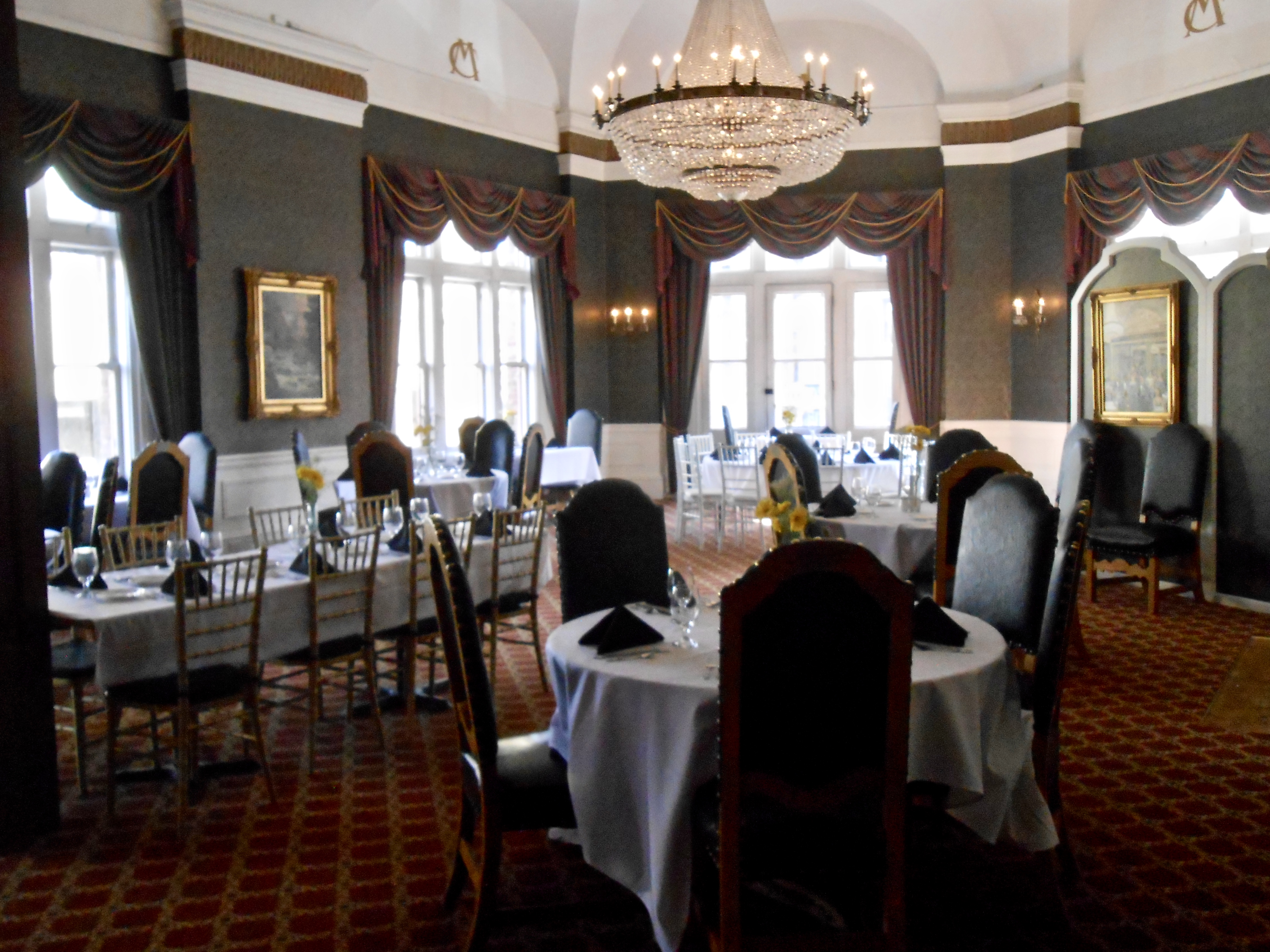 Members' Dining room, 2nd floor Montana Club building, 24 W. 6th Helena, MT Built in 1905, building is part of the Helena Historic District on NRHP and houses a private club first established in 1885. The original building, built beginning in 1891, burned in 1903 and the current structure was rebuilt using the original first floor as a base.